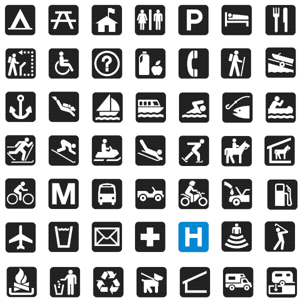 Example icons of U.S. National Park Service (NPS) from: For list of 350 NPS icons, see: Category:USNPS map symbols.